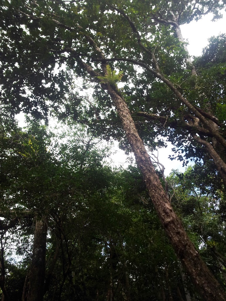 Bois Bigaignon tree - Psiloxylon mauritianum - Ferney Mauritius